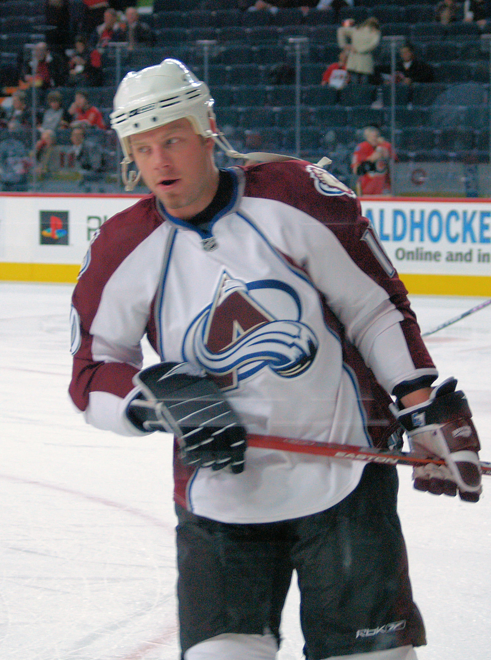 Wyatt Smith warming up before a game in Calgary, Alberta